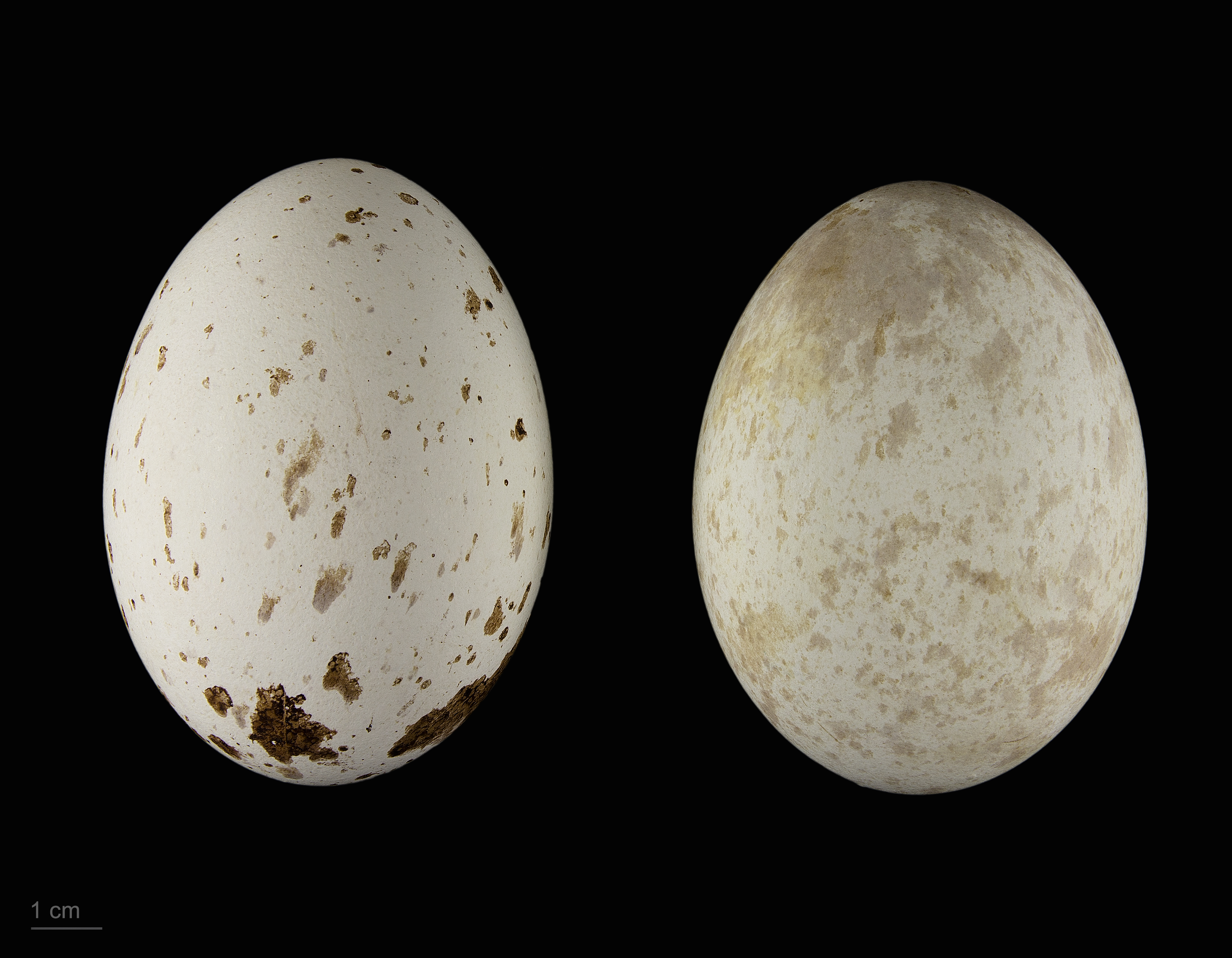 Eggs of tawny eagle Two specimens of the same spawn ; collection of Jacques Perrin de Brichambaut.